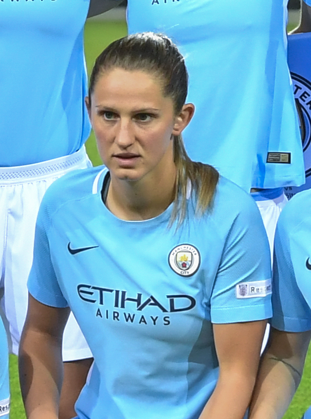 4/10/17, St. Poelten, Austria, sports, soccer, UEFA Women's Champions League - SKN St. Poelten vs Manchester City.